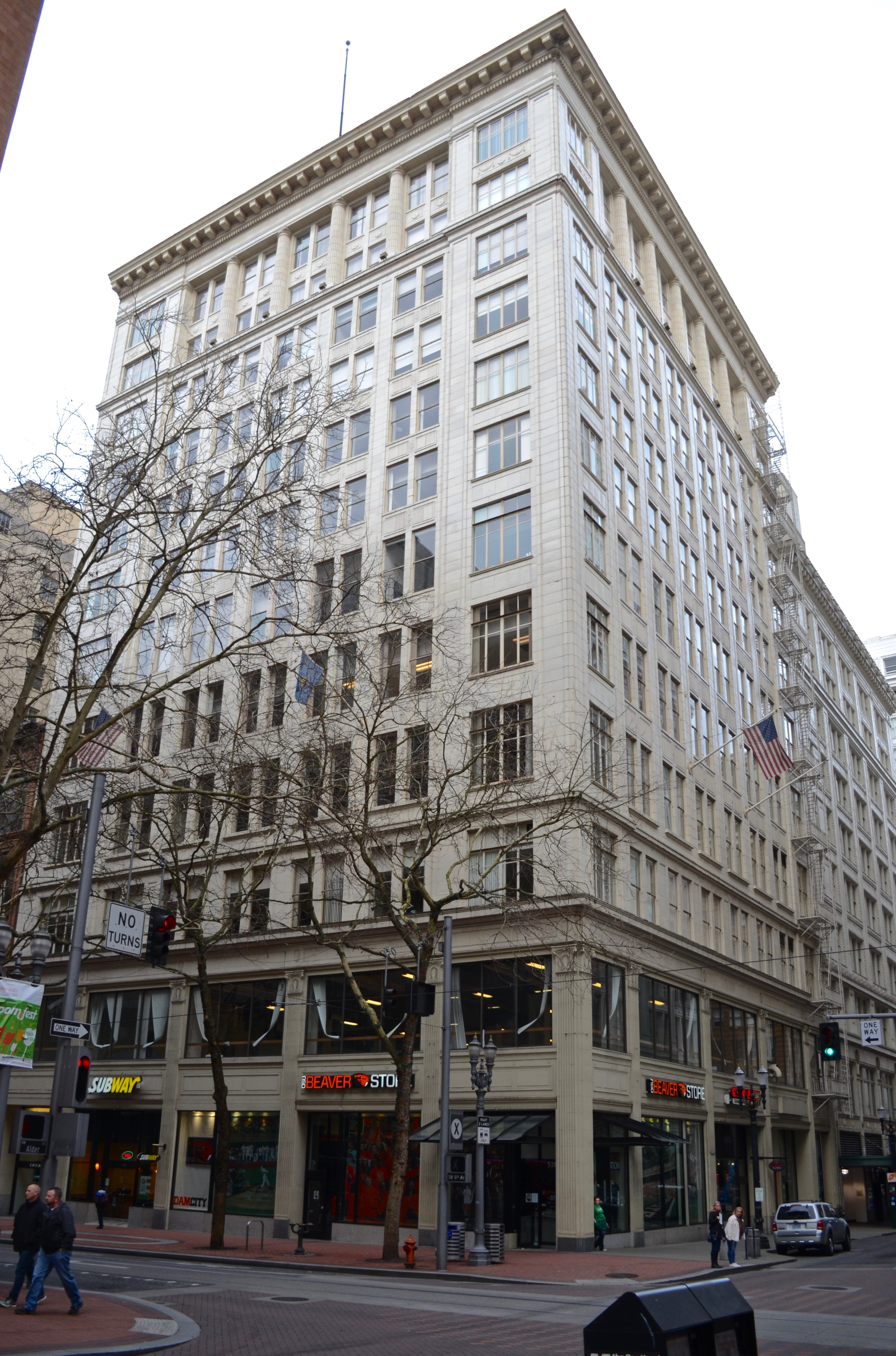 The Cascade Building in downtown Portland, Oregon, viewed from the southwest, across the intersection of SW 6th & Alder The 1925 building is listed on the U.S. National Register of Historic Places under its original name, the Bedell Building.